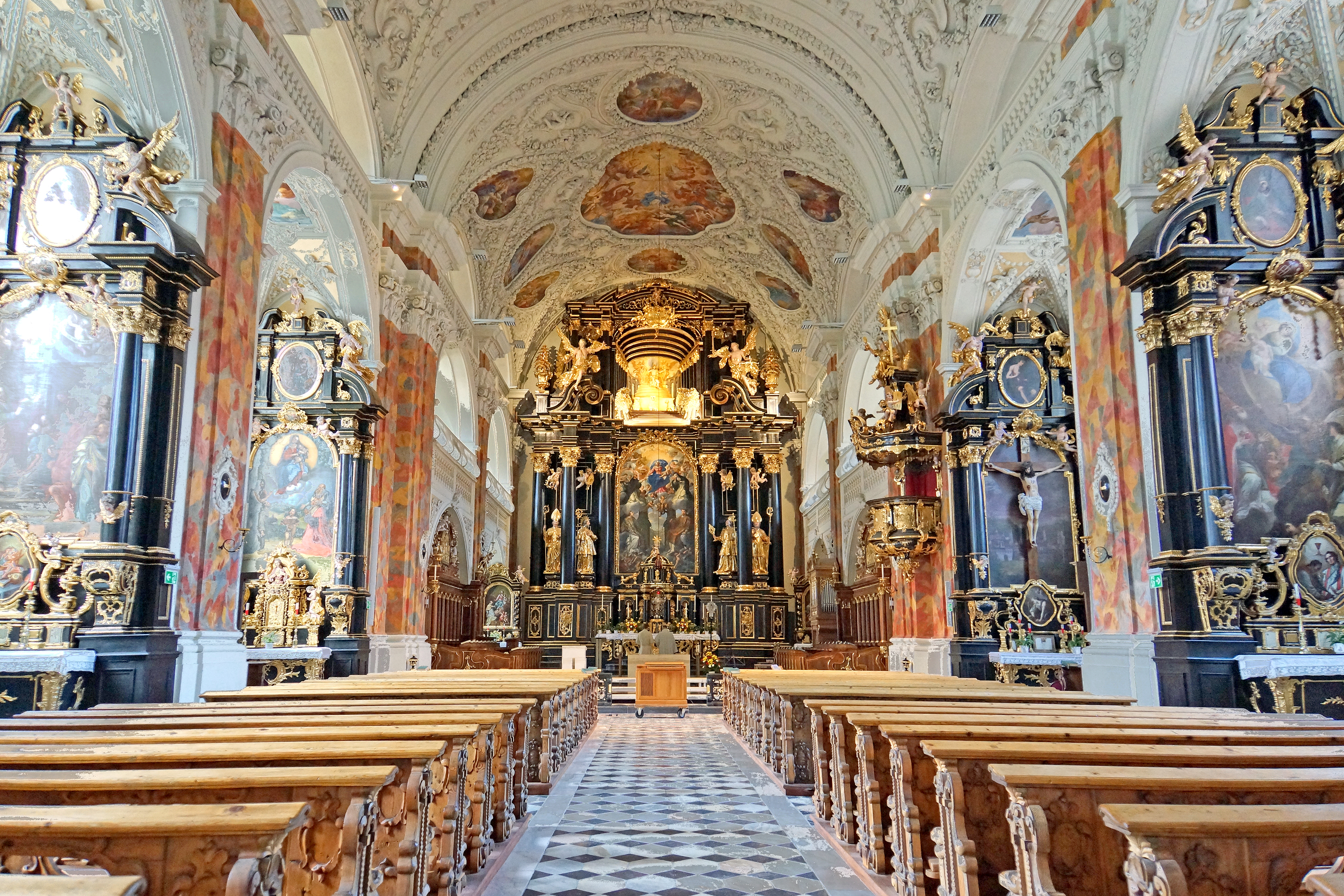 This baroque church was built in 1665. Wilten Abbey consists of the Collegiate Church and the monastery. The first monastery on this site came about in 878AD. The legend is that a fight broke out between two giants, the local Tyrsus and a Germanic immigrant, Haymon. Haymon caused the death of Tyrsus and as atonement he is said to have built the monastery in Wilten.